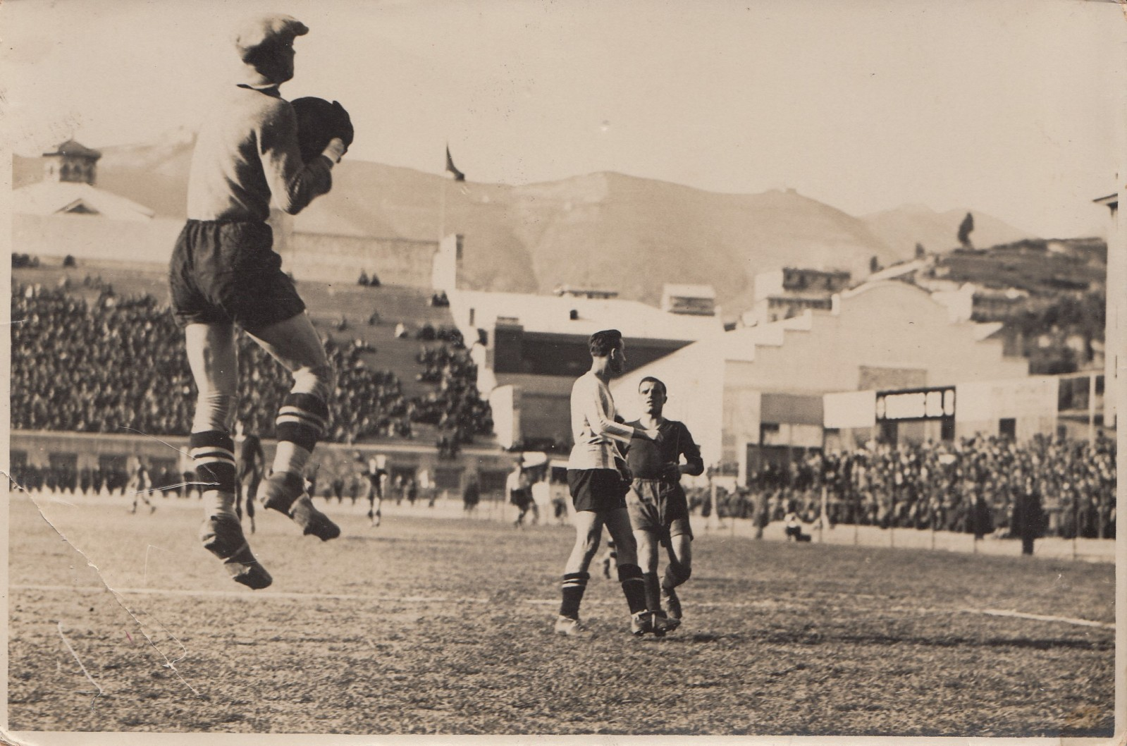 Giuseppe Carlo Ferrari (Genoa) with a shot at goal, saved by goalkeeper Giordano Picciga